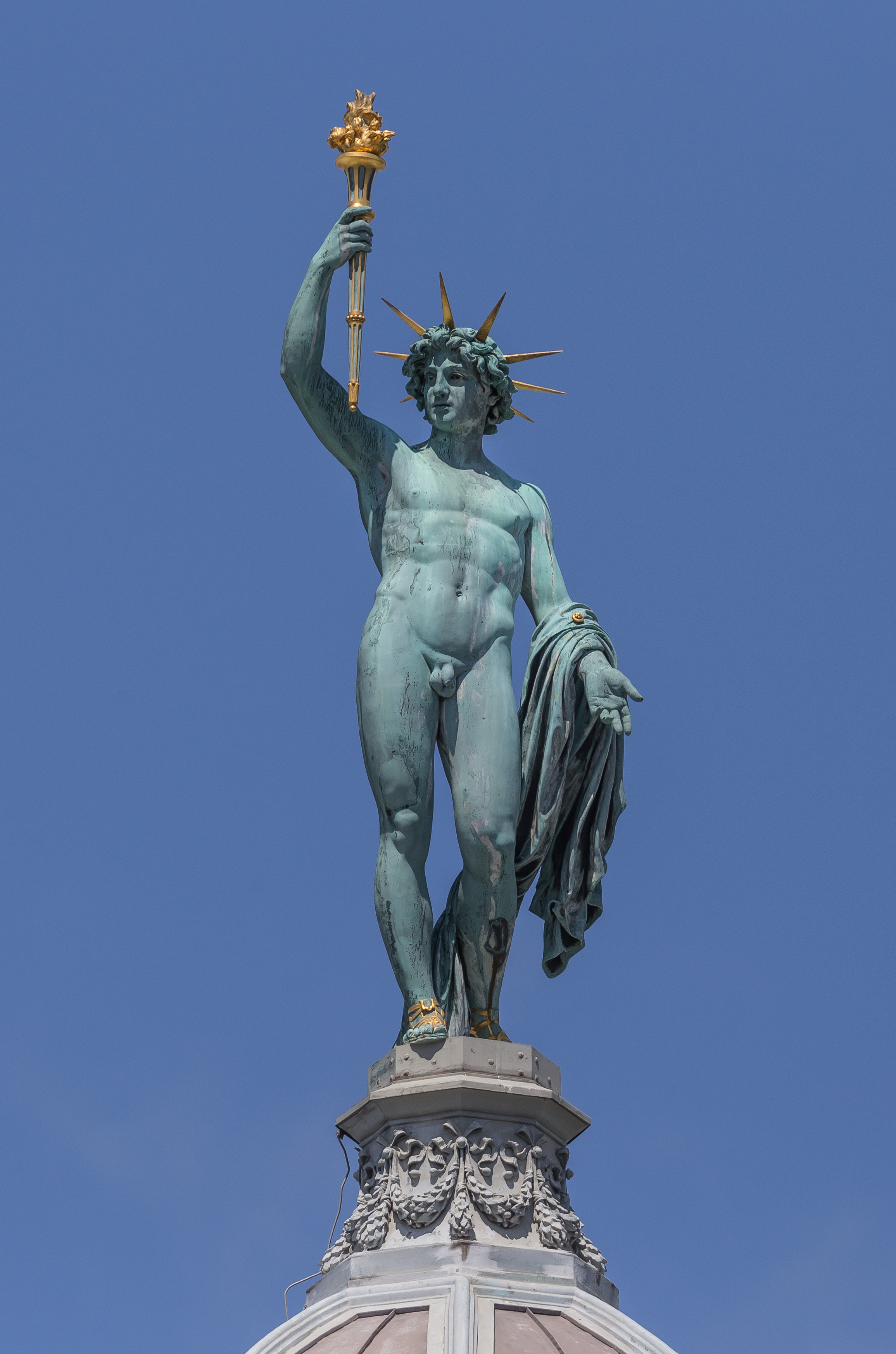 Helios, Main figure (Johannes Benk) at the Naturhistorisches Museum, Vienna